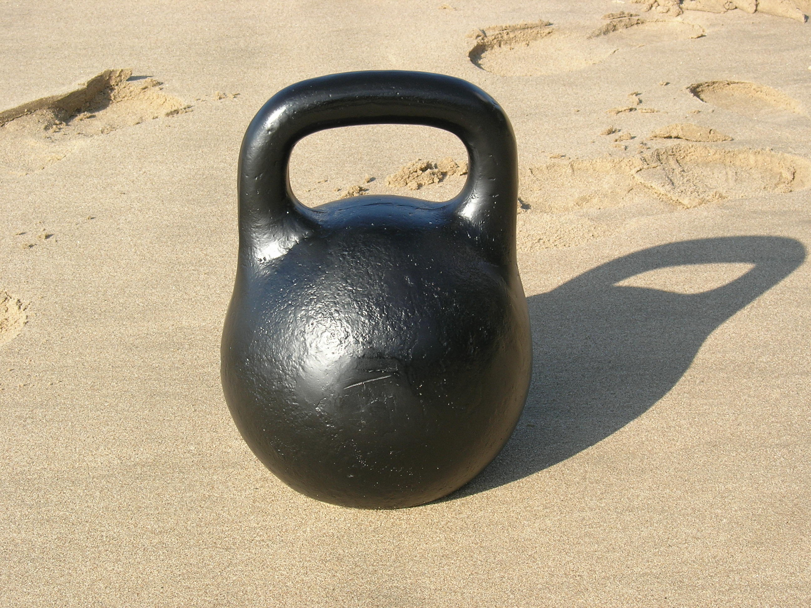 Picture of a kettlebell or "girya" (russ.) in the sand.